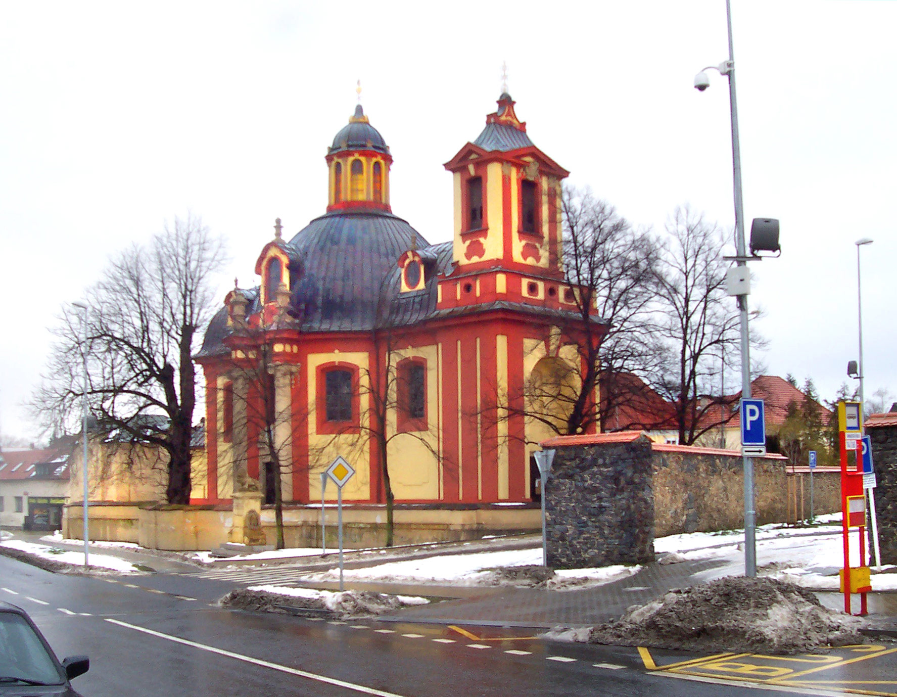 Church of St James the Great in Kunratice, Prague